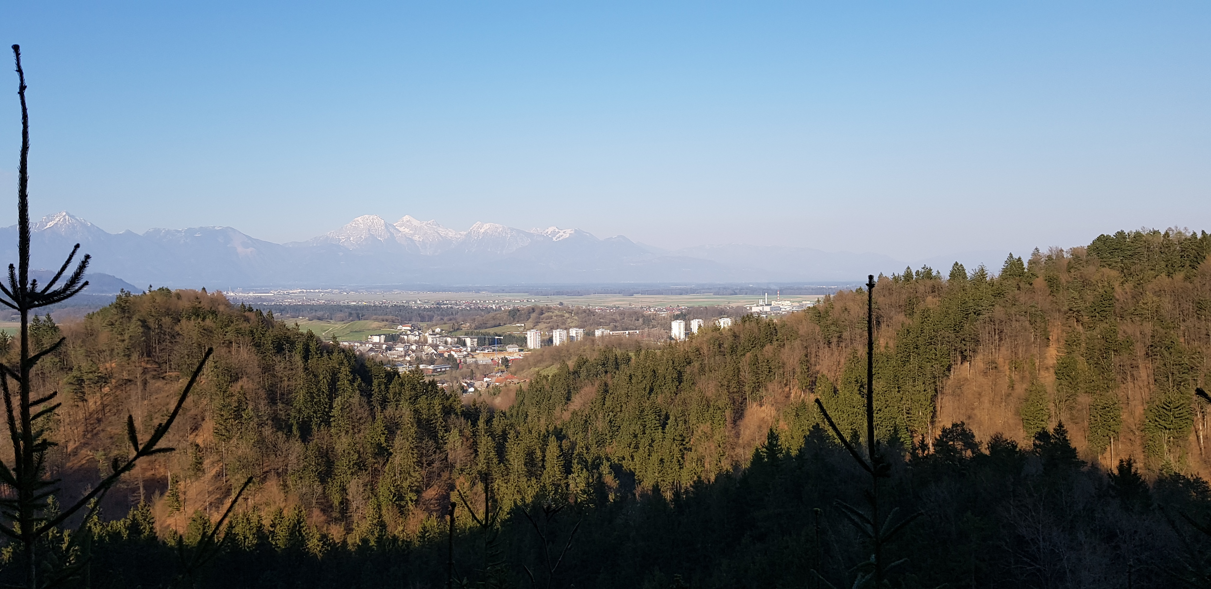 Škofja Loka